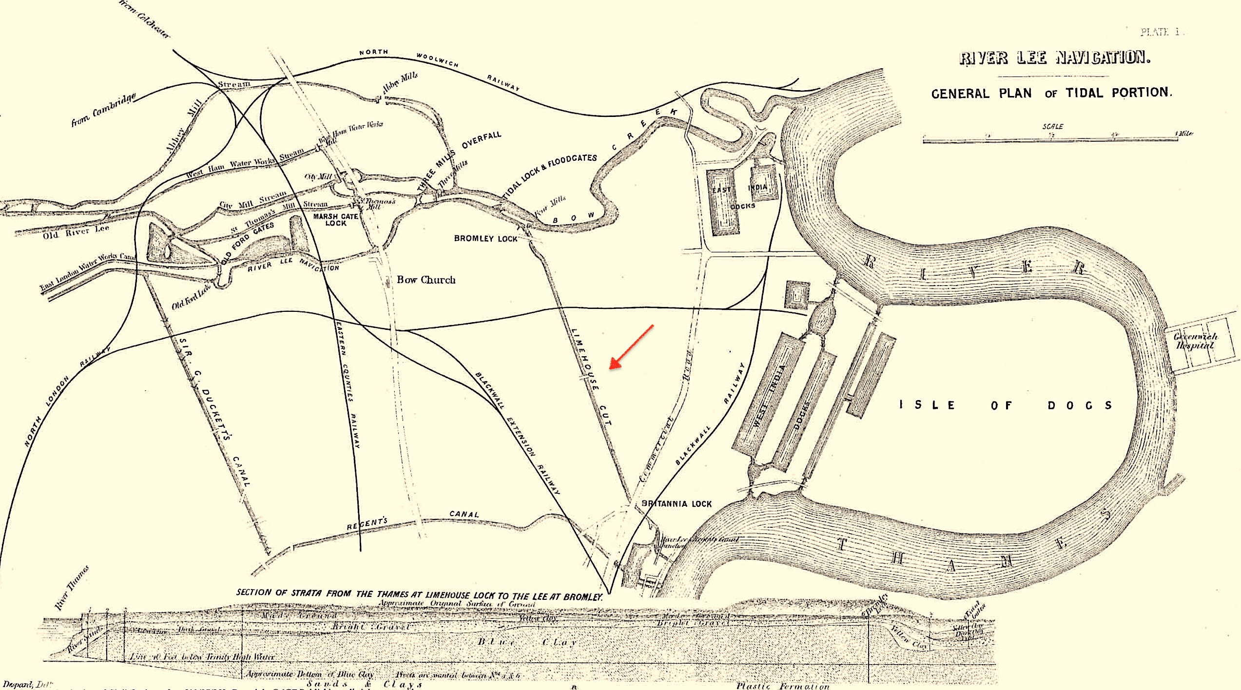 Works improving the tidal portion of the River Lee Navigation supervised by Nathaniel Beardmore, 1854. A red arrow has been added to indicate the Limehouse Cut.